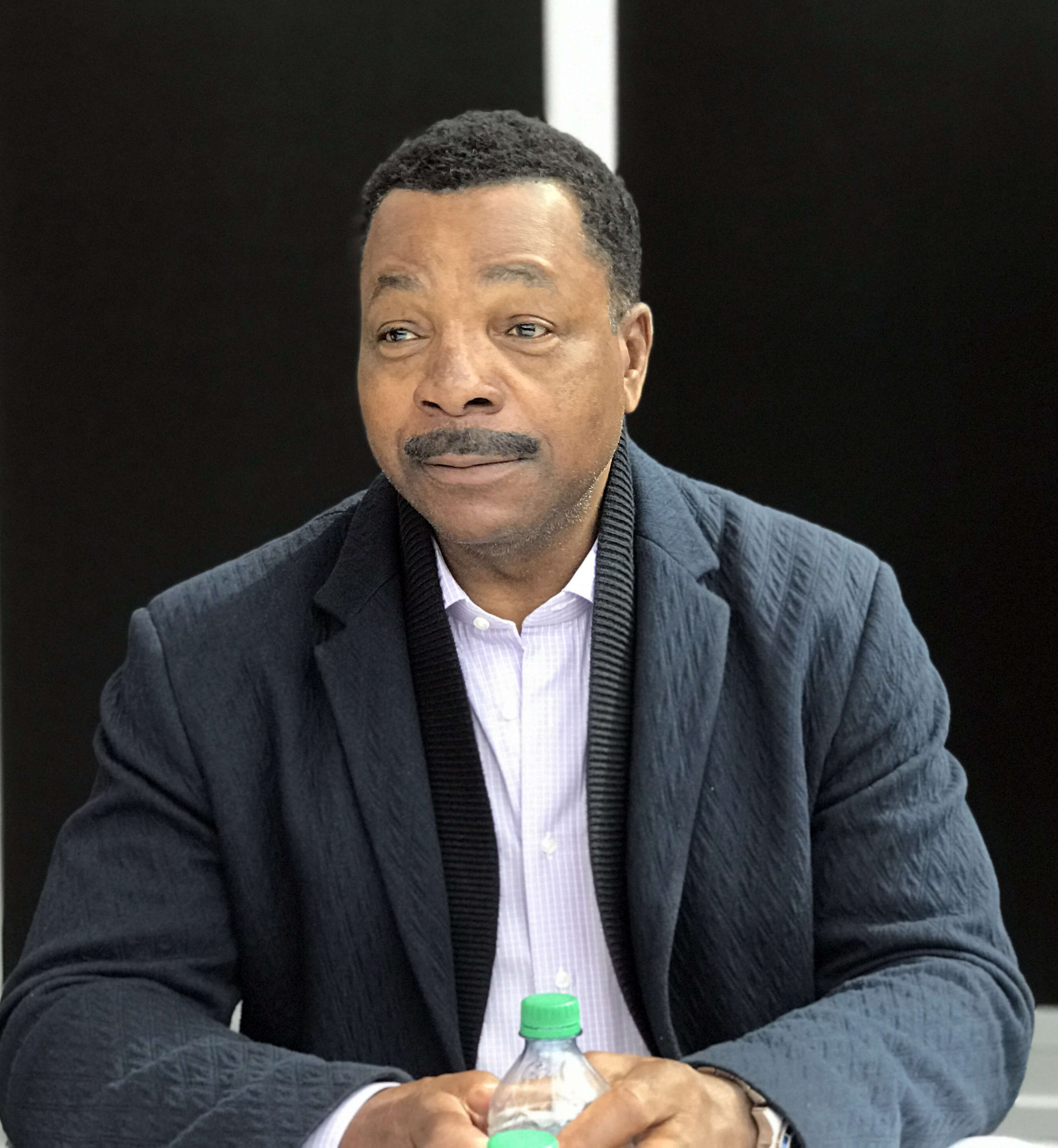 Actor Carl Weathers at the Explosion Jones press room, where that animated TV series was being promoted, on Thursday, October 5, 2017 at the Jacob K. Javits Convention Center in Manhattan, Day 1 of the 2017 New York Comic Con. This photo was created by Luigi Novi. It is not in the public domain, and use of this file outside of the licensing terms is a copyright violation.